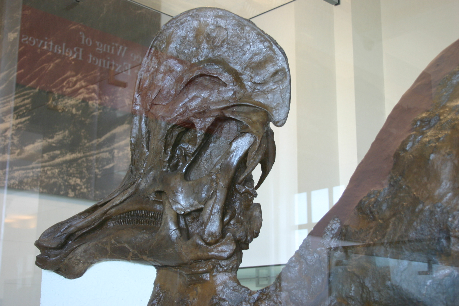 Corinthian-helmet reptile Visit my blog at